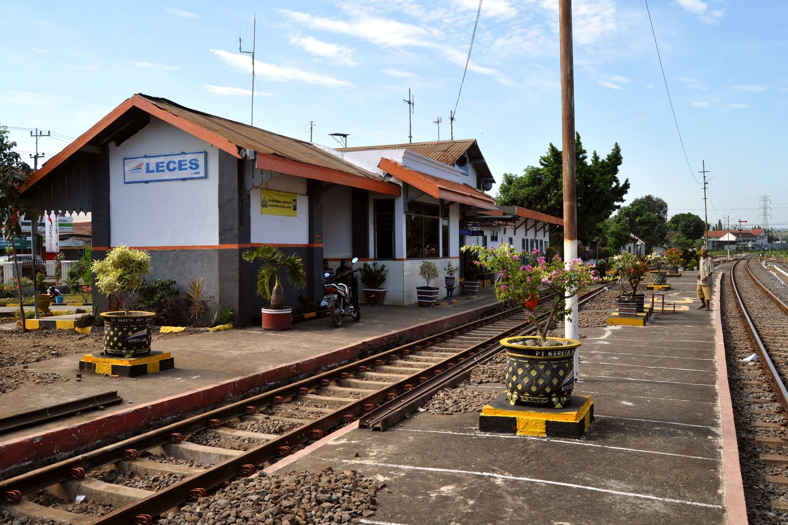 Leces train station in Probolinggo Regency, East Java, Indonesia.